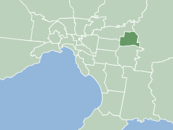 Map of Melbourne's Local Government Areas, highlighting City of Maroondah